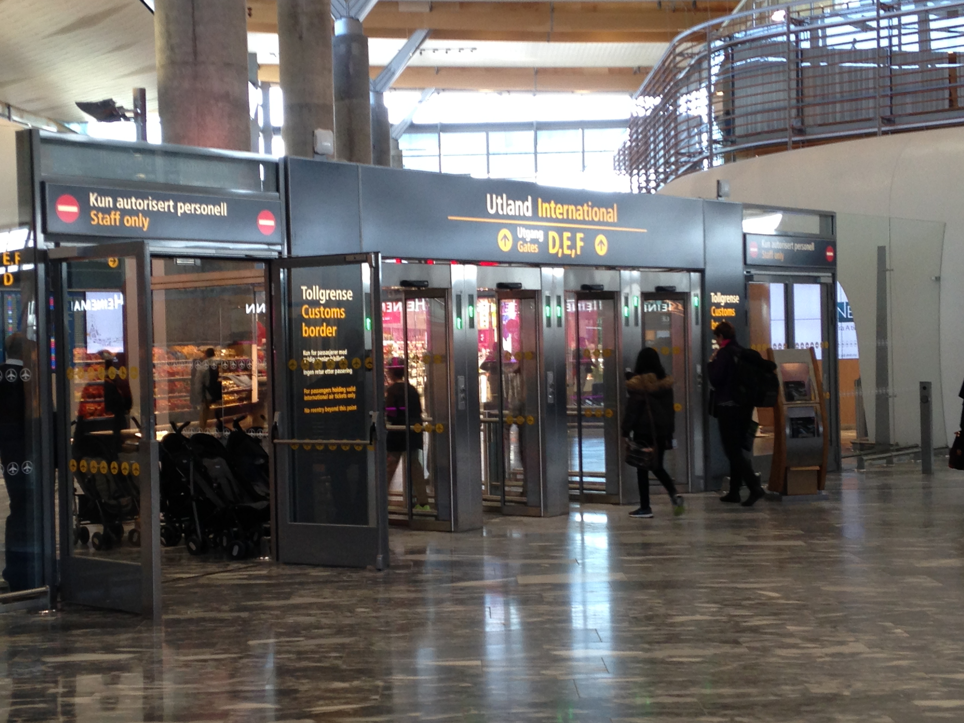 Customs border at the Oslo airport (Gardermoen) separating the international flights from the domestic flights. Norway is not part of the European Union Customs Union.